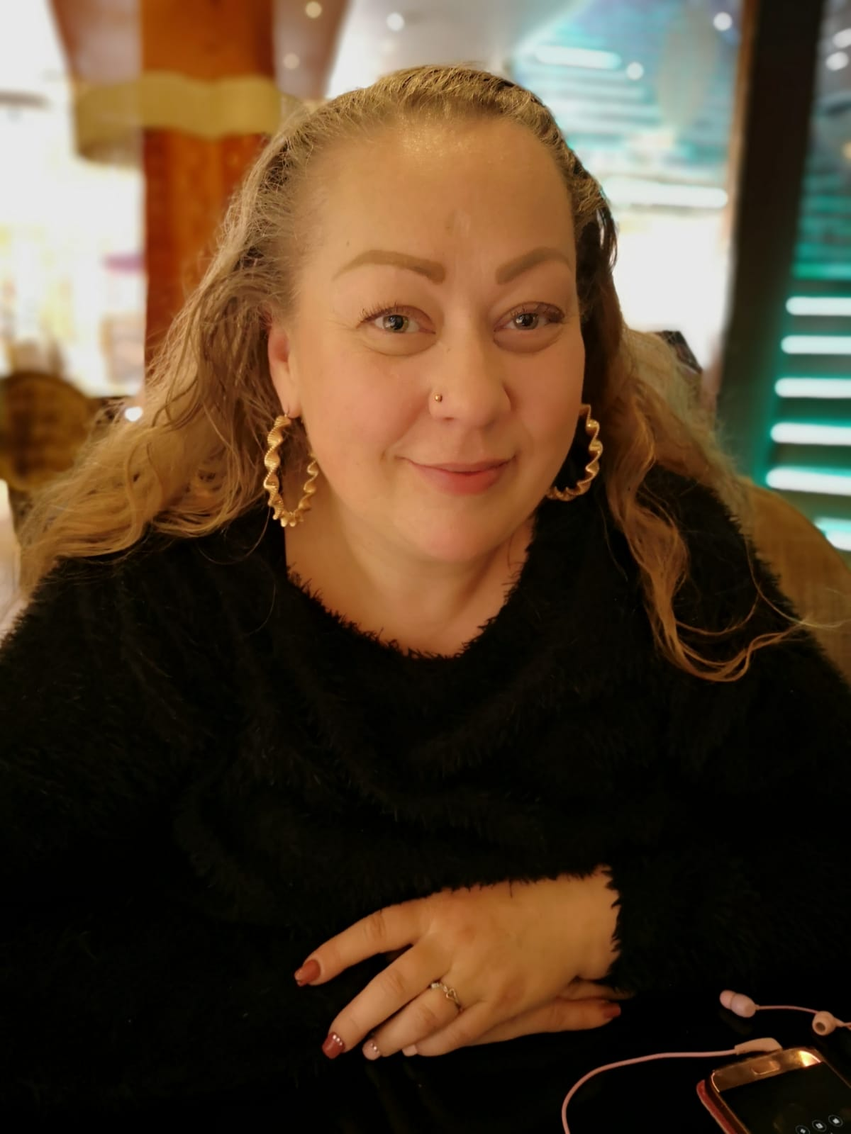 Fatou Lusi